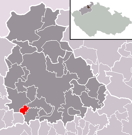 Location of Habrovany municipality within Ústí nad Labem District and administrative area of Ústí nad Labem as a Municipality with Extended Competence.